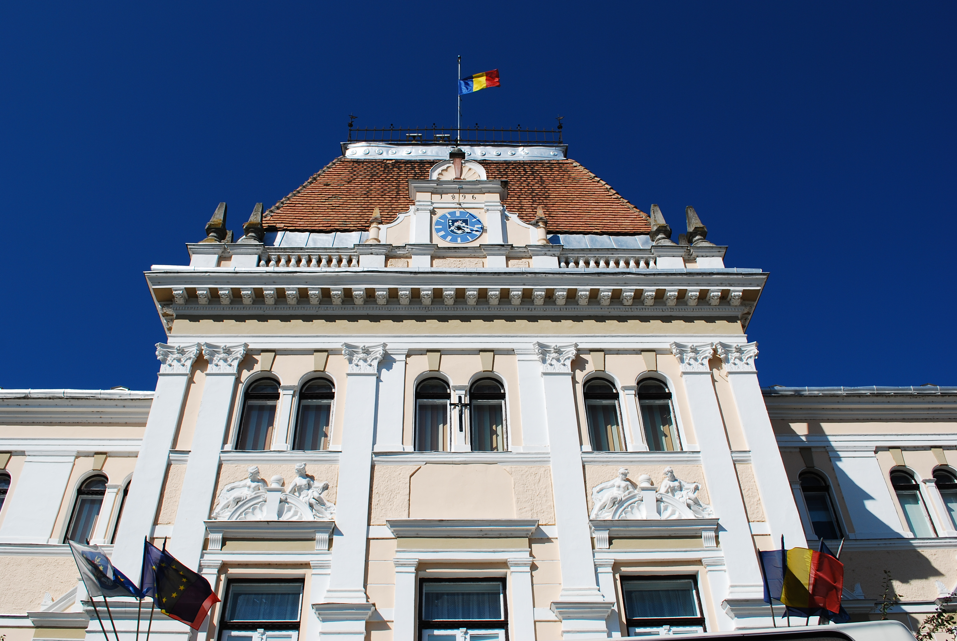 Odorheiu Secuiesc, Romania city hall